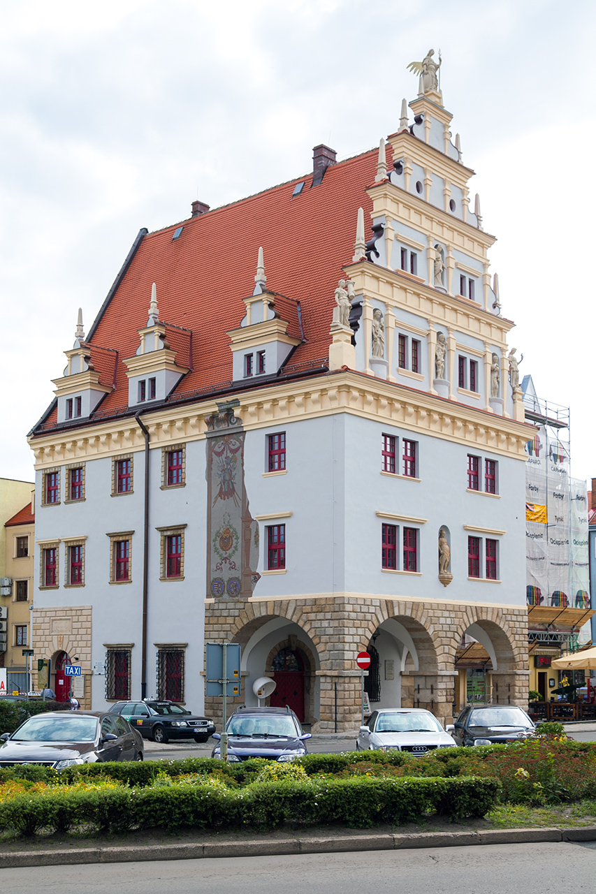 Weigh house building in Nysa - Poland.